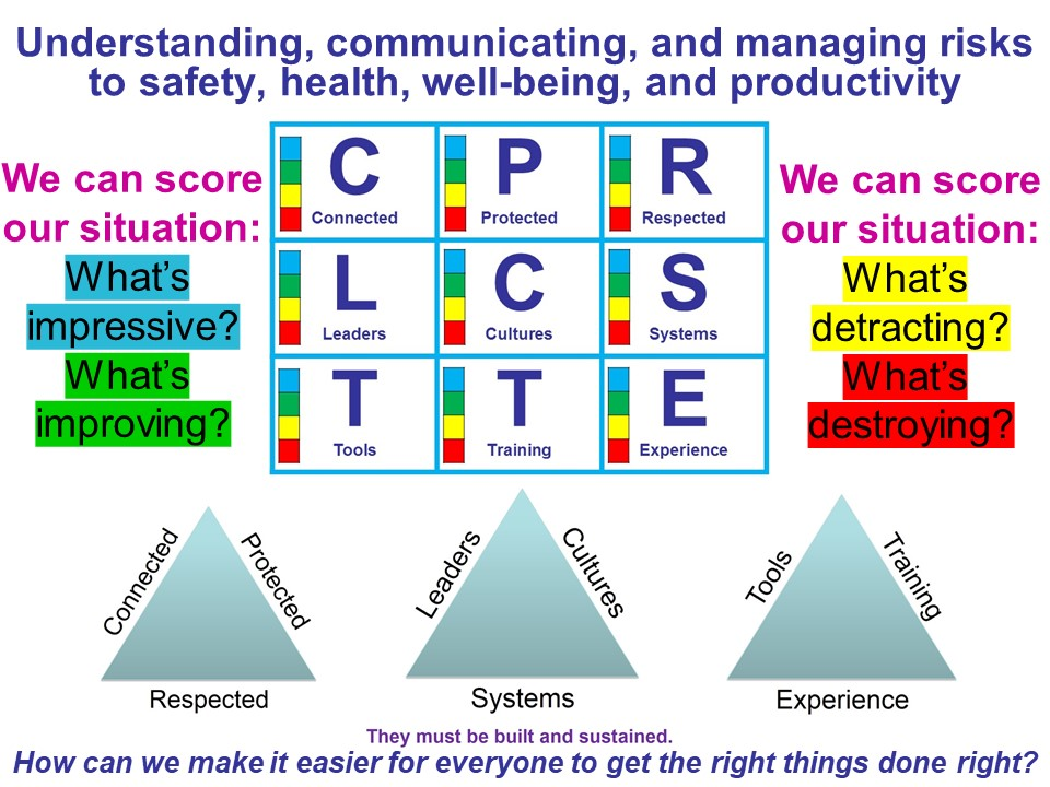 The ARECC framework and process to Anticipate and Recognize Hazards, Evaluate Exposures, and Control and Confirm Protection from Risks recognizes the essential contributions of leaders, cultures, and systems to achieving success. When failures to protect people and the environment from risks have occurred, root causes of those failures can be traced to shortcomings or breakdowns in one or more aspects of the prevailing leaders, cultures, and systems. Aspects of the decision-making framework and process related to building and sustaining relevant and reliable leaders, cultures, and systems can be particularly important when disparate technologies or activities are converging. Figure 3 illustrates the components of leaders, cultures, and systems that enable ARECC in any setting to: make it easier for everyone to get the right things done right for protection by helping to build and sustain connected, protected, and respected communities with leaders, cultures, and systems that have all the tools, training, and experience needed to anticipate and recognize hazards, evaluate exposures, and control and confirm protection from risks to safety, health, well-being, and productivity in all the places we live, learn, work, and play. This figure provides essential components for assessing, building, and sustaining connected, protected, respected communities of leaders, cultures, and systems with all the tools, training, and experience needed to control and confirm protection from risks in any setting